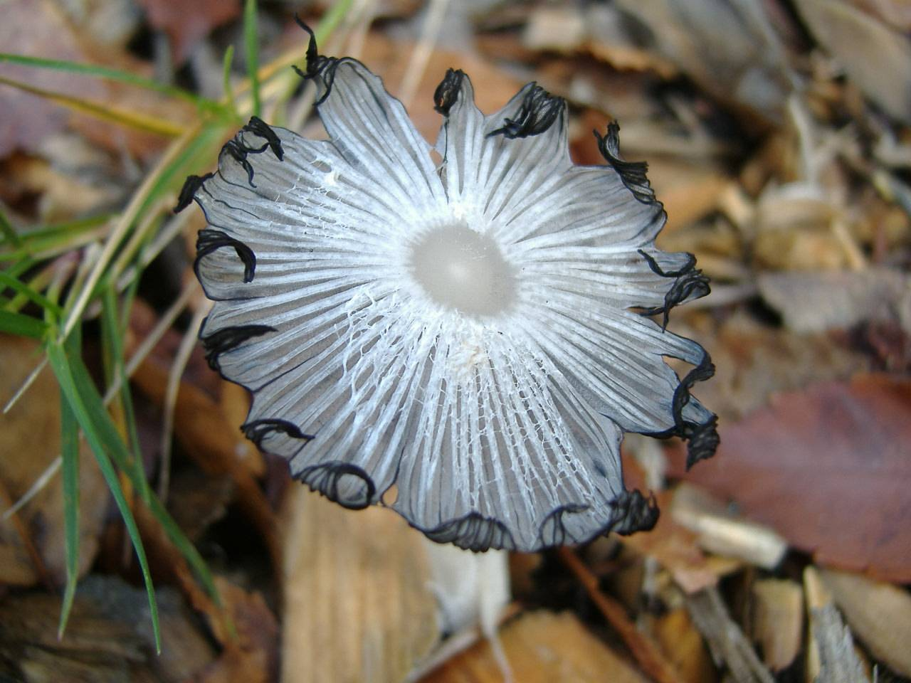 View of the cap of a mature fruit body of Coprinopsis lagopus (Fr.) Redhead, Vilgalys & Moncalvo. Photographed at Shorecrest High School, in Shoreline, Washington, USA.